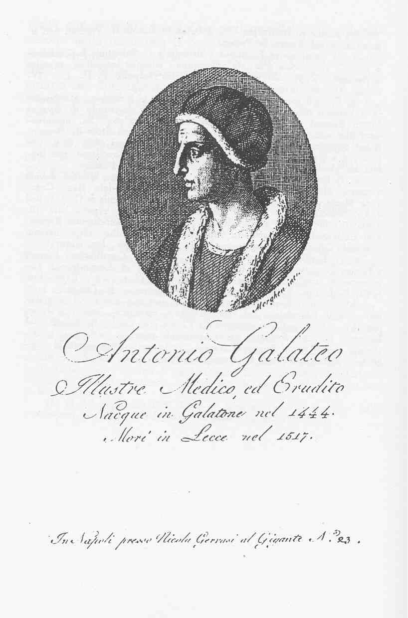 Antonio Galateo (1444-1517) (Antonio De Ferraris), a Greek doctor from the Salento, Italy